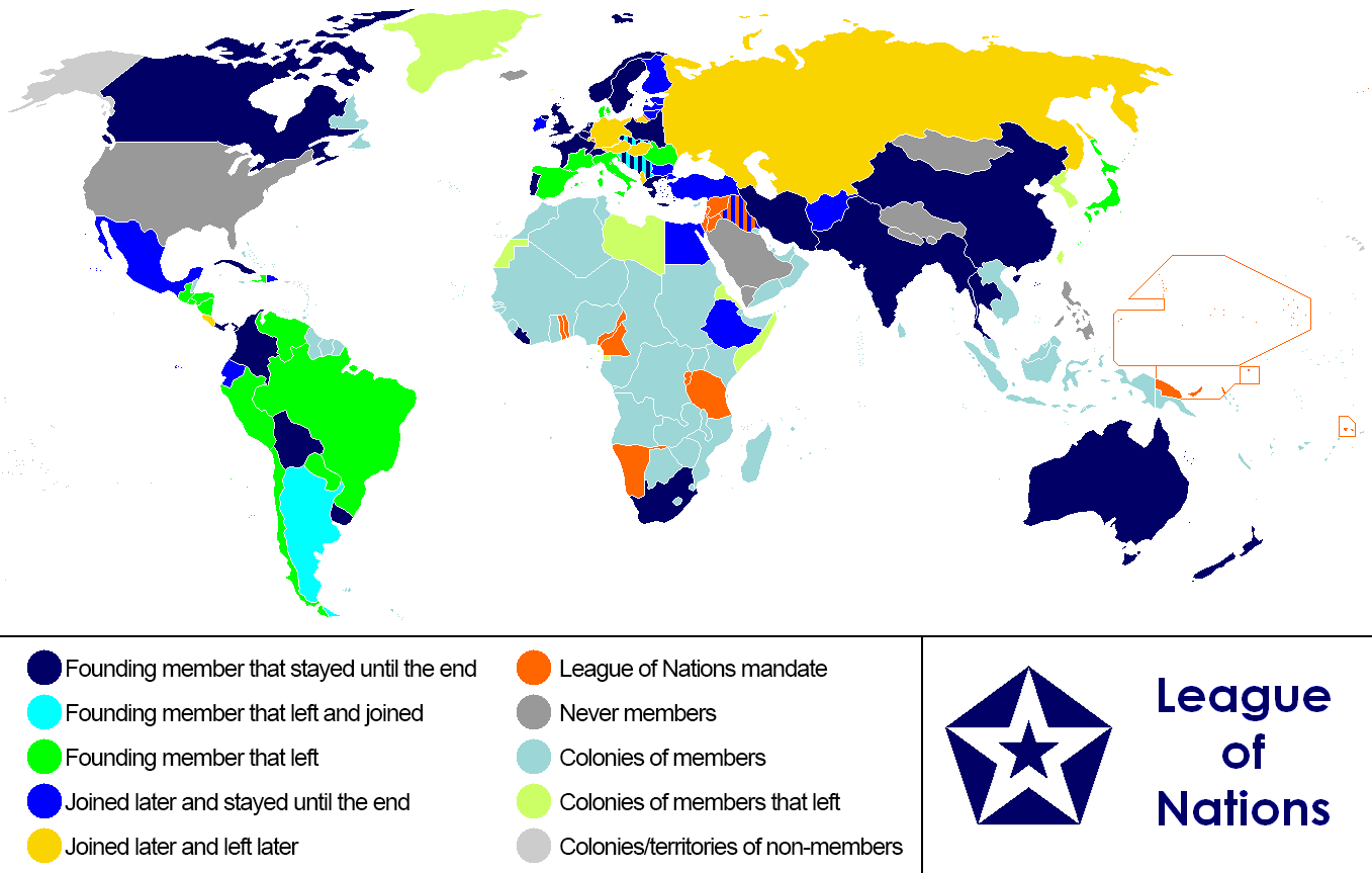 Anachronous map of the world between 1920 and 1945 which shows the The League of Nations and the world. (English)